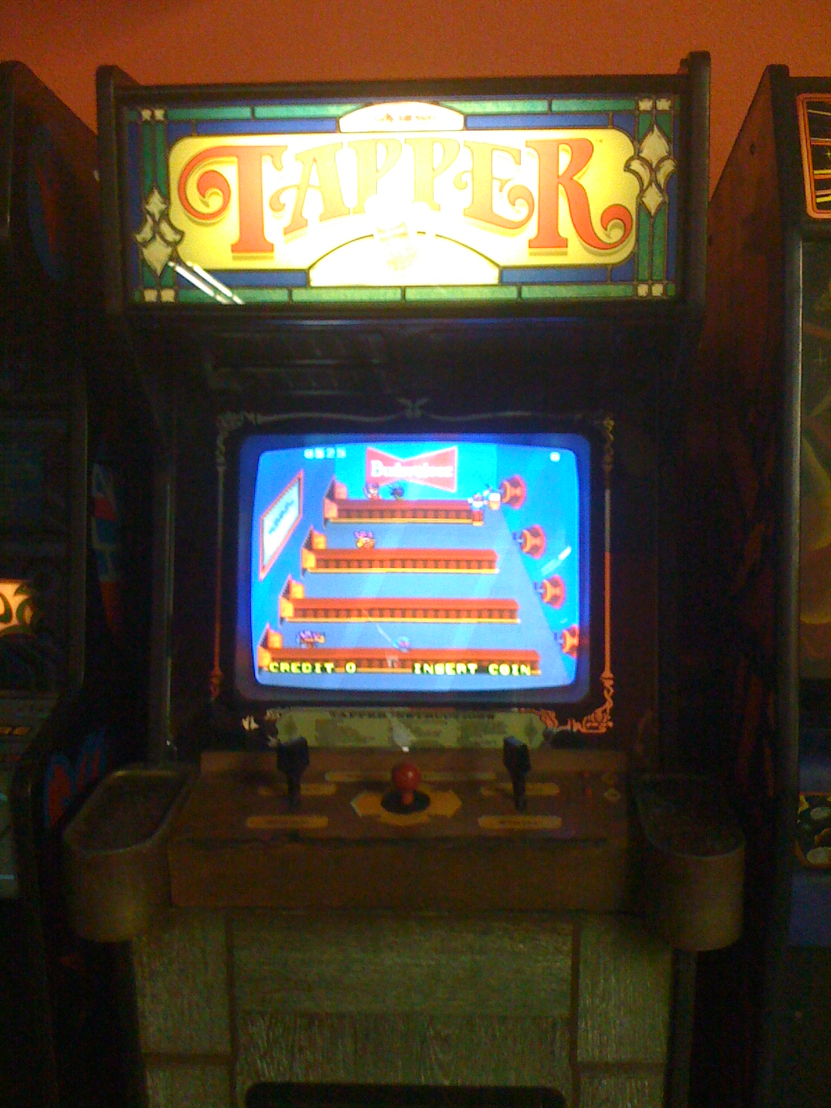 With Greg at the Flashbacks retro arcade in Seaside Heights, NJ, July 25, 2009. pictured: Bally Midway's Tapper